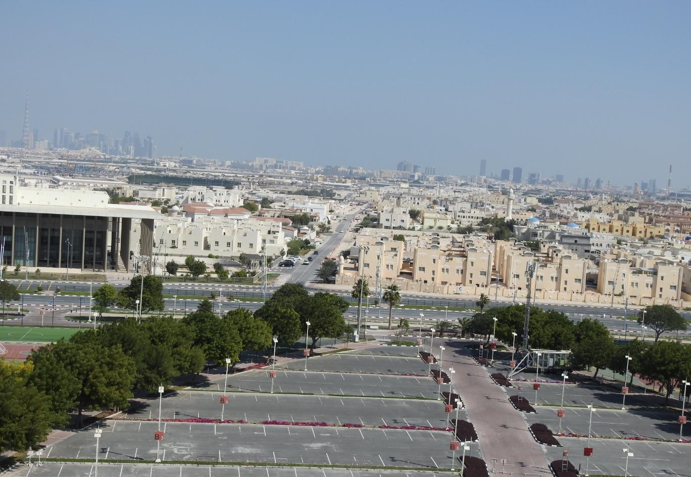 View of Wadi Al Gaiya Street in Mehairja from Aspire Zone parking lot. The Anti Doping Lab can be seen at the intersection of Al Buwairda Street and Wadi Al Gaiya Street. Al Rayyan, Qatar.